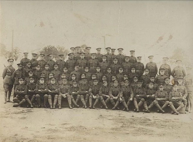 21st Regiment, at Carling's Heights, London, Ontario, 30 September 1917 (written on border on uncropped version)